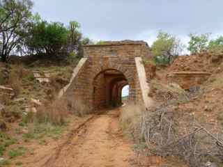 westfort or fort daspoortrand in pretoria